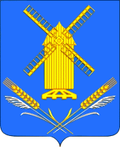 Coat of arms of Kamyshevatskaya, Krasnodar krai, Russia.